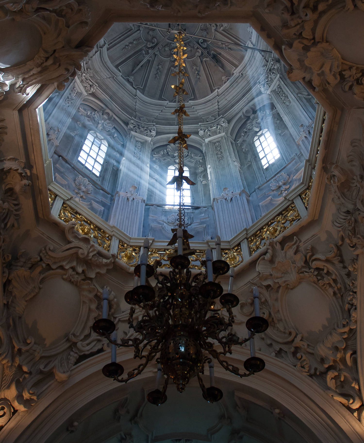 Church of Constantine and Helena, interior / New Jerusalem, Russia